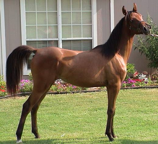 Arabian horse: "Our Kate as a yearling. Alex took this one in the front yard at the "old" house."